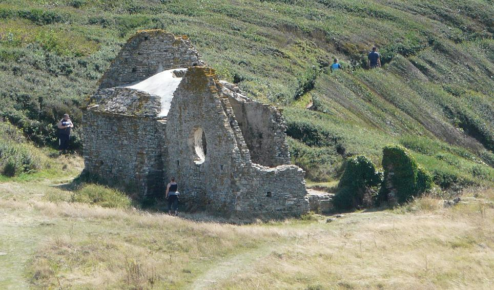 Church called Saint-Germain the Scot located on the Carteret Cape in Normandy, France